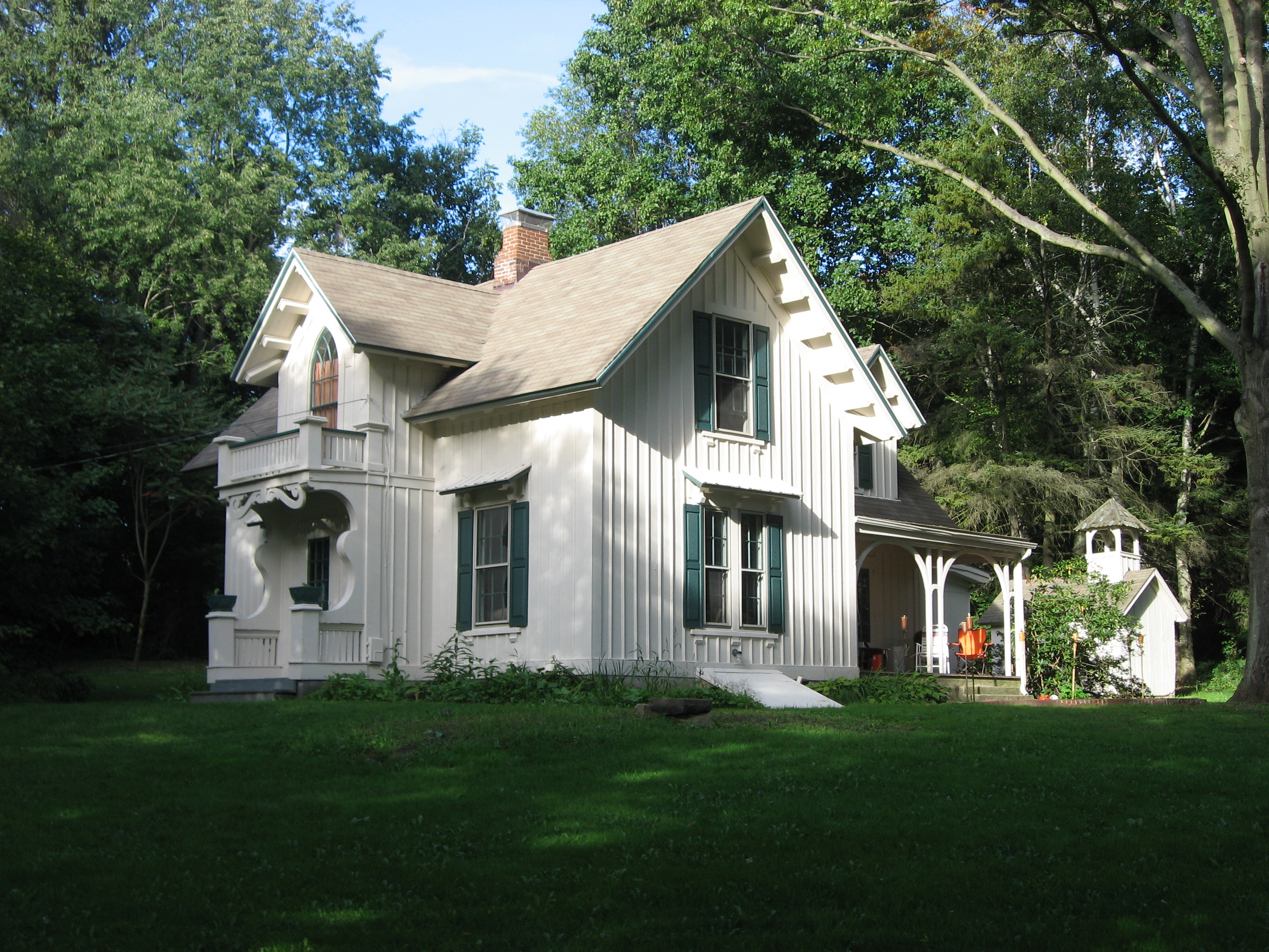 Front and side of the Aaron Ferrey House, located at 5058 Sunnybrook Rd. in far southern Kent, Ohio, United States. Built in 1866, it is listed on the National Register of Historic Places.